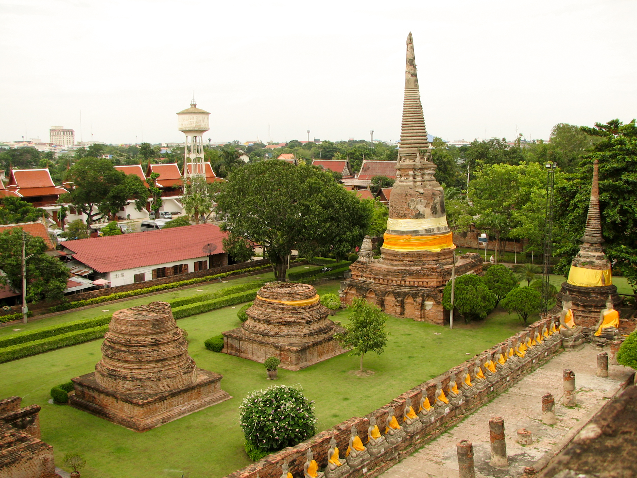 Wat Yai Chai Mongkhon, Ayutthaya, Thailand